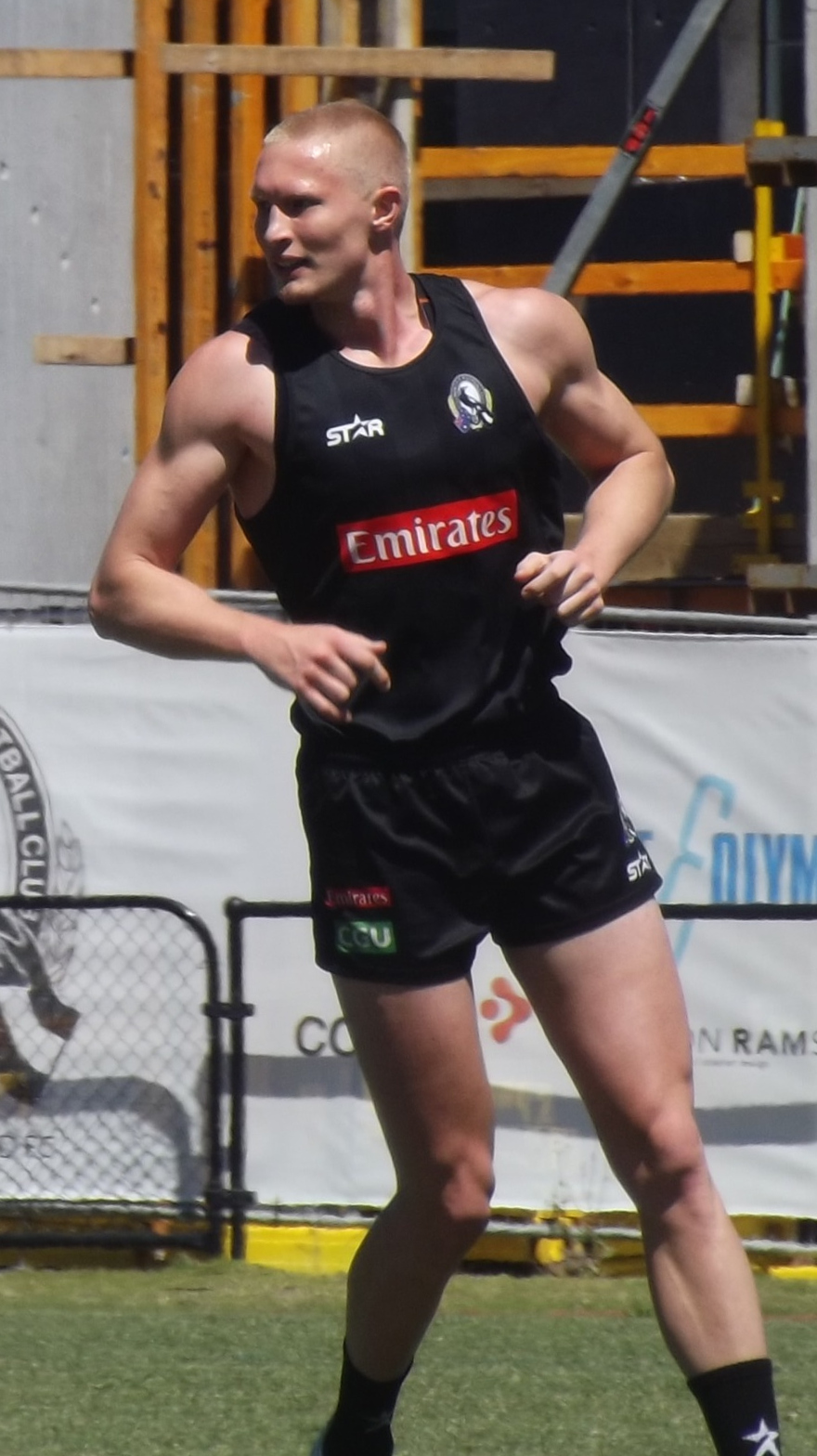 Jack Frost with Collingwood during an open training session at Olympic Park, Melbourne.